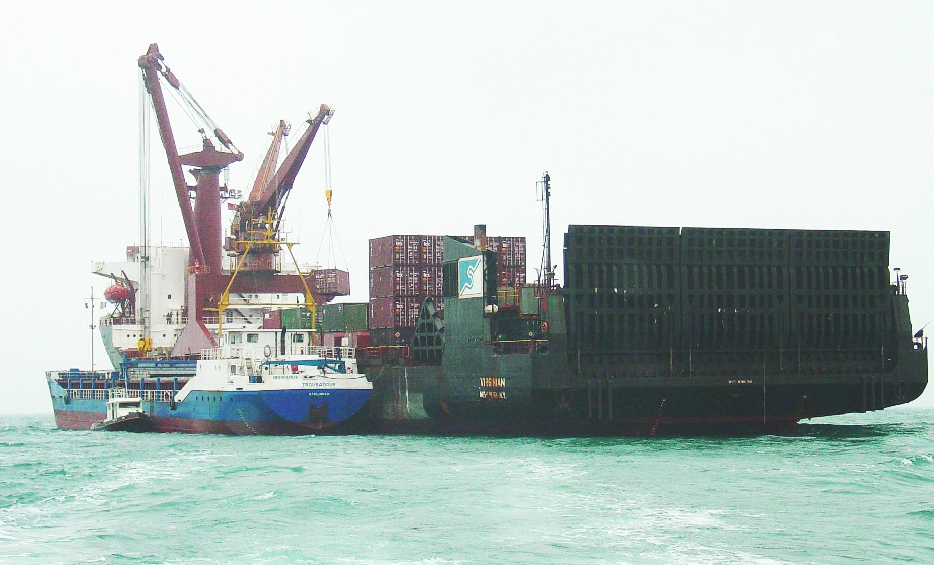 MV Strong Virginian with MV Troubadour IMO 9048639